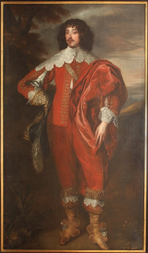 Portrait of William Villiers, 2nd Viscount Grandison